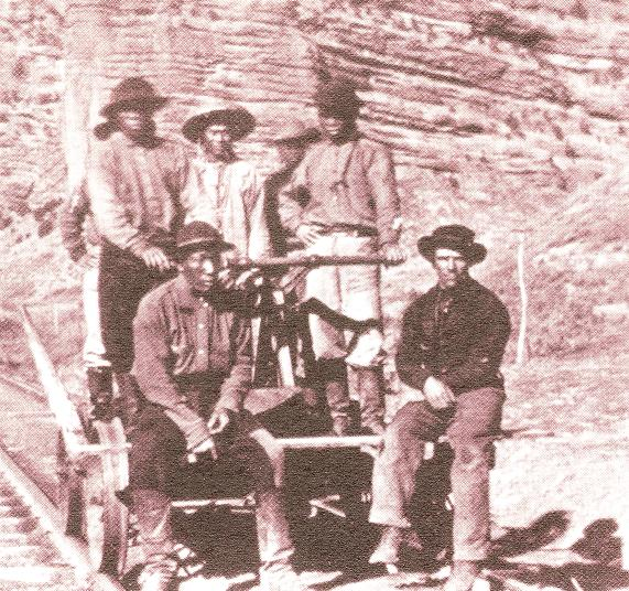 19世紀前往北美洲興建鐵路的中國勞工。19th Century , Chinese worker had brought to North America for construction of railyway.